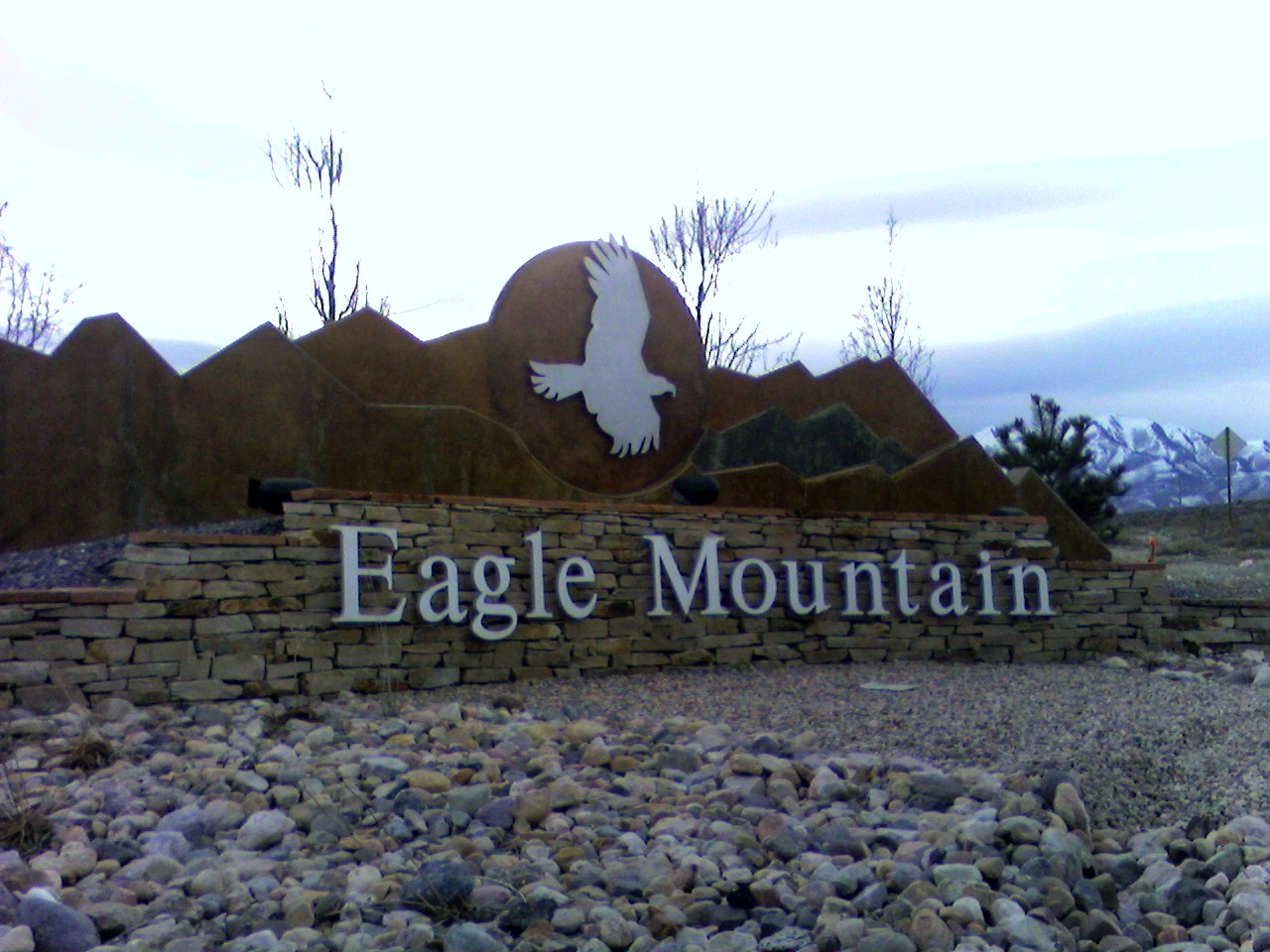 Eagle Mountain weclcome sign by David Jolley.